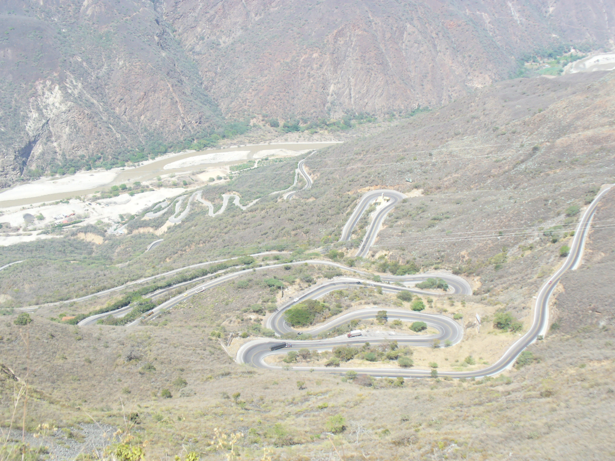 Pescadero, in the road between San Gil and Bucaramanga.